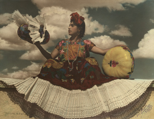 Courtesy of Special Collections, University of Houston Libraries. To see the complete collection visit